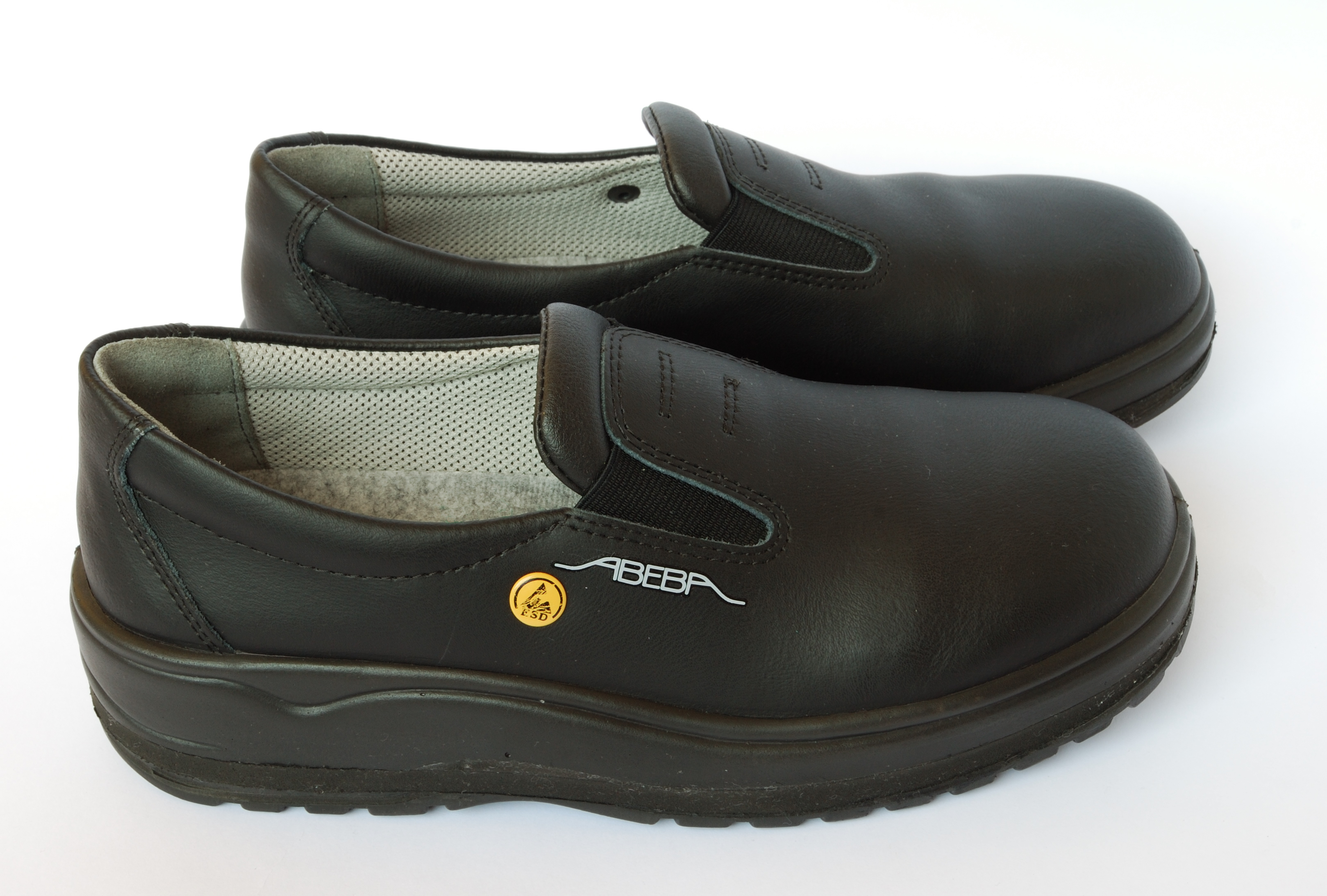 Anti-static shoes (ESD) with the ESD symbol